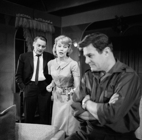 Photograph of the Finnish actors Jussi Jurkka (1930–1982), Tea Ista (1932–2014) and Tauno Palo (1908–1982) when playing Period of Adjustment by Tennessee Williams at The National Theatre of Finland.